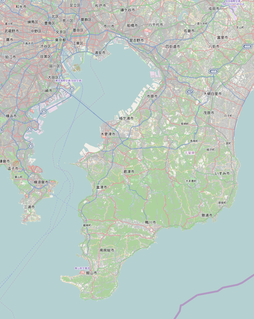 Map of Tokyo Bay and Bōsō Peninsula This map of Kanto region, Japan was created from OpenStreetMap project data, collected by the community. This map may be incomplete, and may contain errors. Don't rely solely on it for navigation.